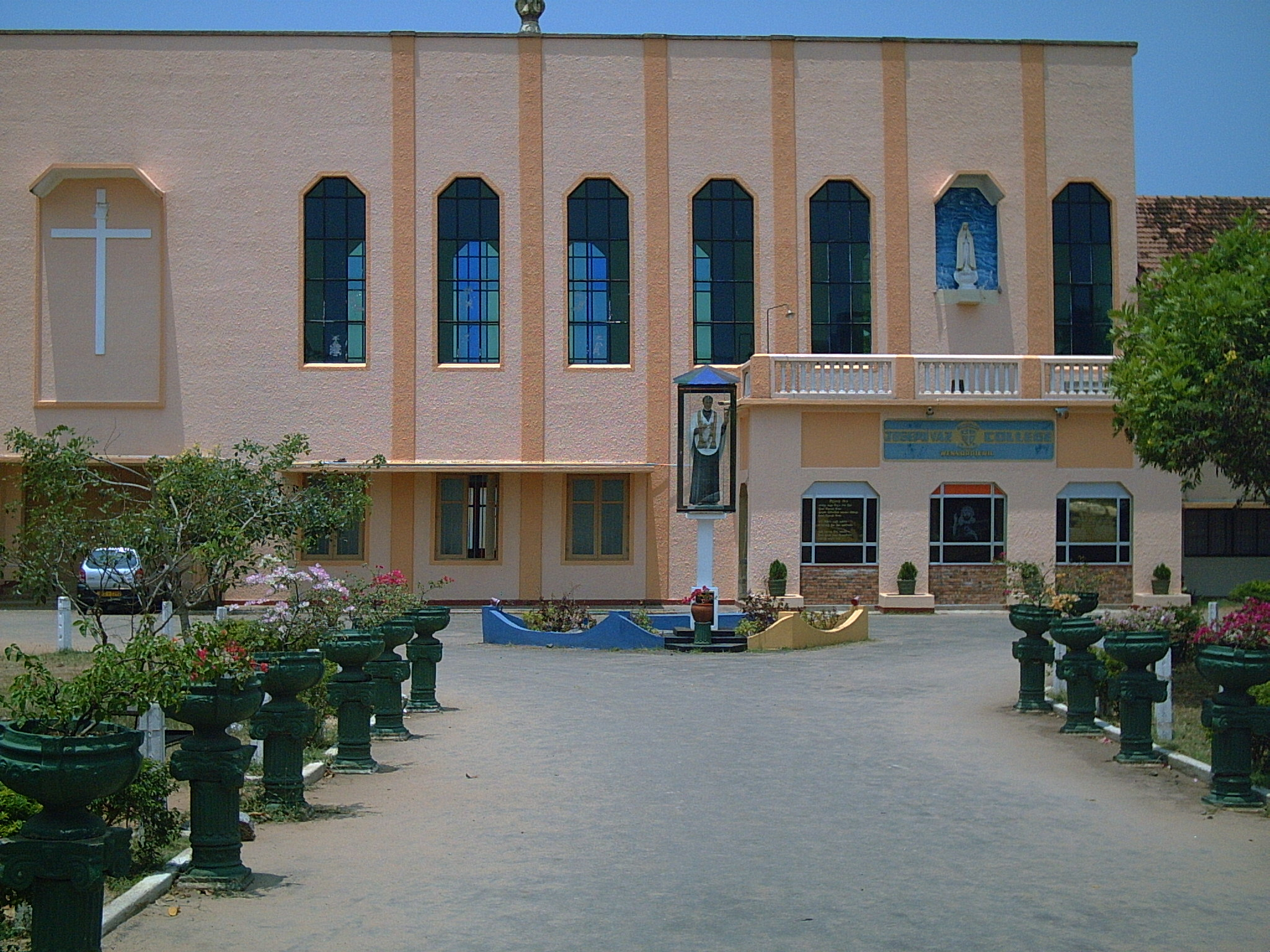 The College View today (2010) Pic, by Marion Ruwantha Thamel.